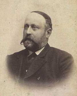 Peder Jensen-Lysholt (1843-1900), Danish farmer and polician, MP